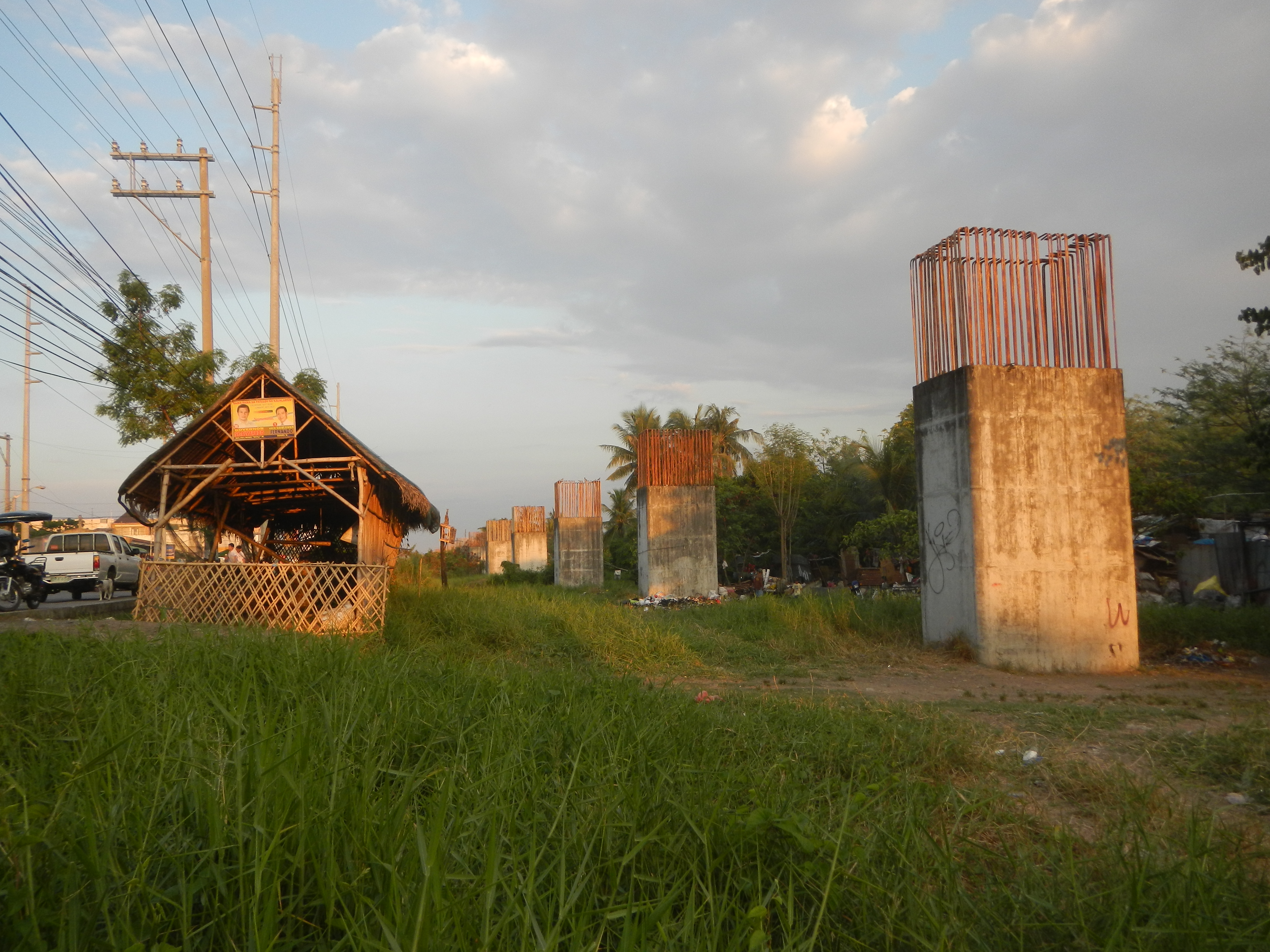 Boundary stone monuments of Guinhawa, Catmon, Sumapang Matanda and Caniogan, Malolos City, Bulacan in MacArthur Highway NBN–ZTE deal corruption scandal ZTE National Broadband Network Failed North Rail project cost taxpayers P15.8B worth $329.4 million supposed to link Manila to Clark; US$503-million North Rail project that would rehabilitate the old north rail line of the Philippine National Railways from Caloocan to Malolos in Bulacan U.P. study finds North Rail contract illegal, disadvantageous to ... Phl, China drop North Rail North Rail Corp WHAT WENT BEFORE: NorthRail Project in Barangays Catmon, Sumapang Matanda, Guinhawa and Caniogan, Guinhawa, Malolos City, Bulacan and Barangays Tabang and Santa Cruz 14°50'33"N 120°52'13"E Guiguinto, Bulacan (along MacArthur Highway or Manila North Road (Note: Judge Florentino Floro, the owner, to repeat, Donor Florentino Floro of all these photos hereby donate gratuitously, freely and unconditionally all these photos to and for Wikimedia Commons, exclusively, for public use of the public domain, and again without any condition whatsoever).